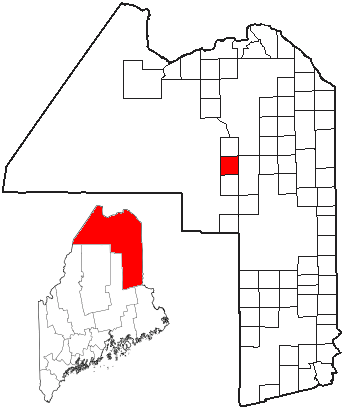 Adapted from U.S. Census Bureau maps (American FactFinder) and Wikipedia's ME county maps by Bumm13.